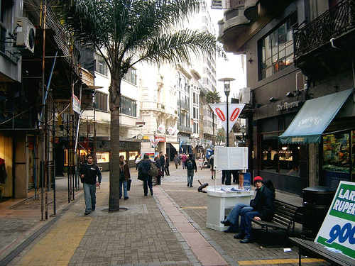 Pedestrian street in Montevideo, Uruguay.